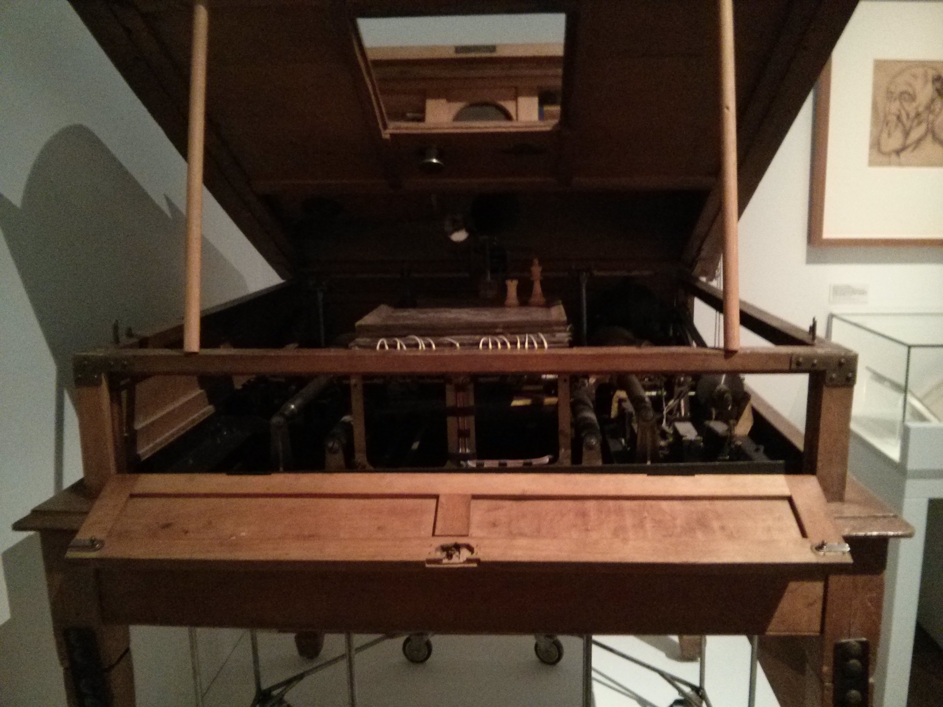 El Ajedrecista, created by Leonardo Torres Quevedo